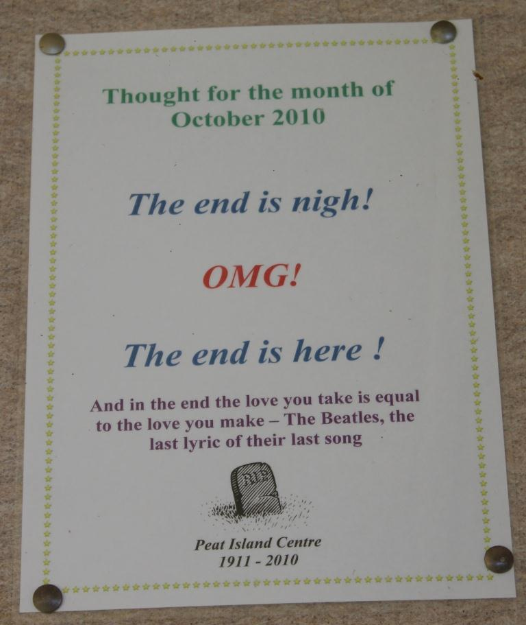 The last remaining notice on the Peat Island notice board, acknowledging the closure of the facility in October 2010